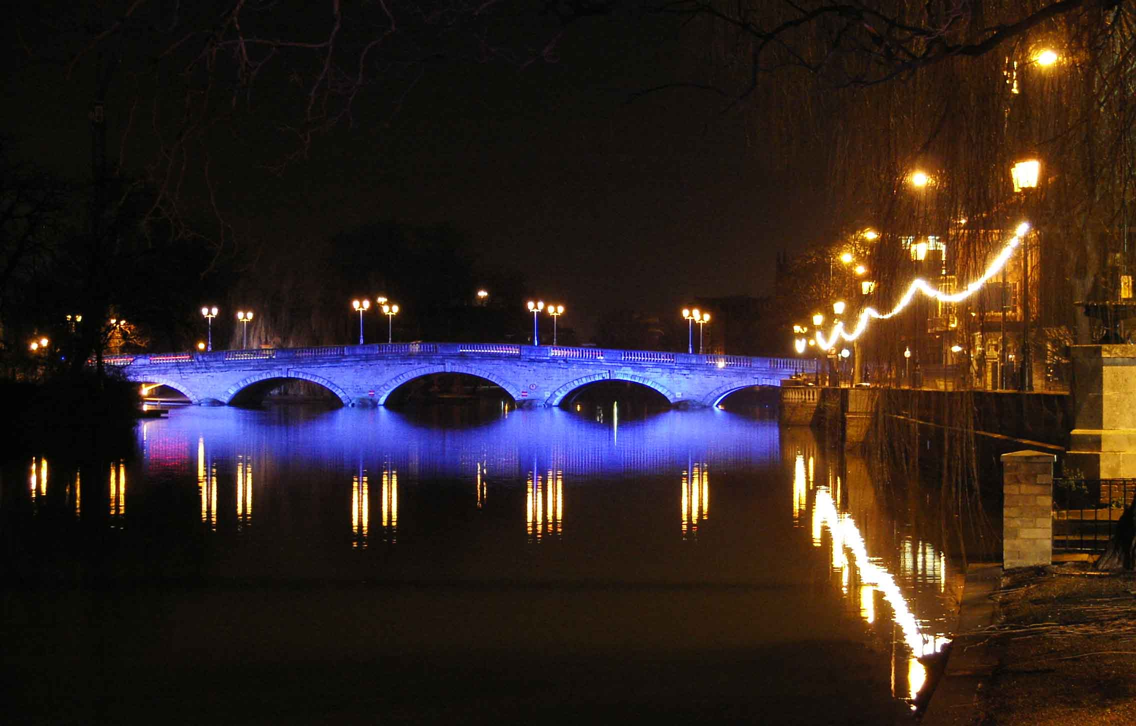 Taken on a cold evening in late January 2007. Yes the bridge is light that colour.